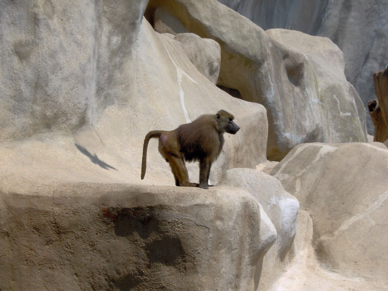 Papio papio in Parc zoologique de Paris.